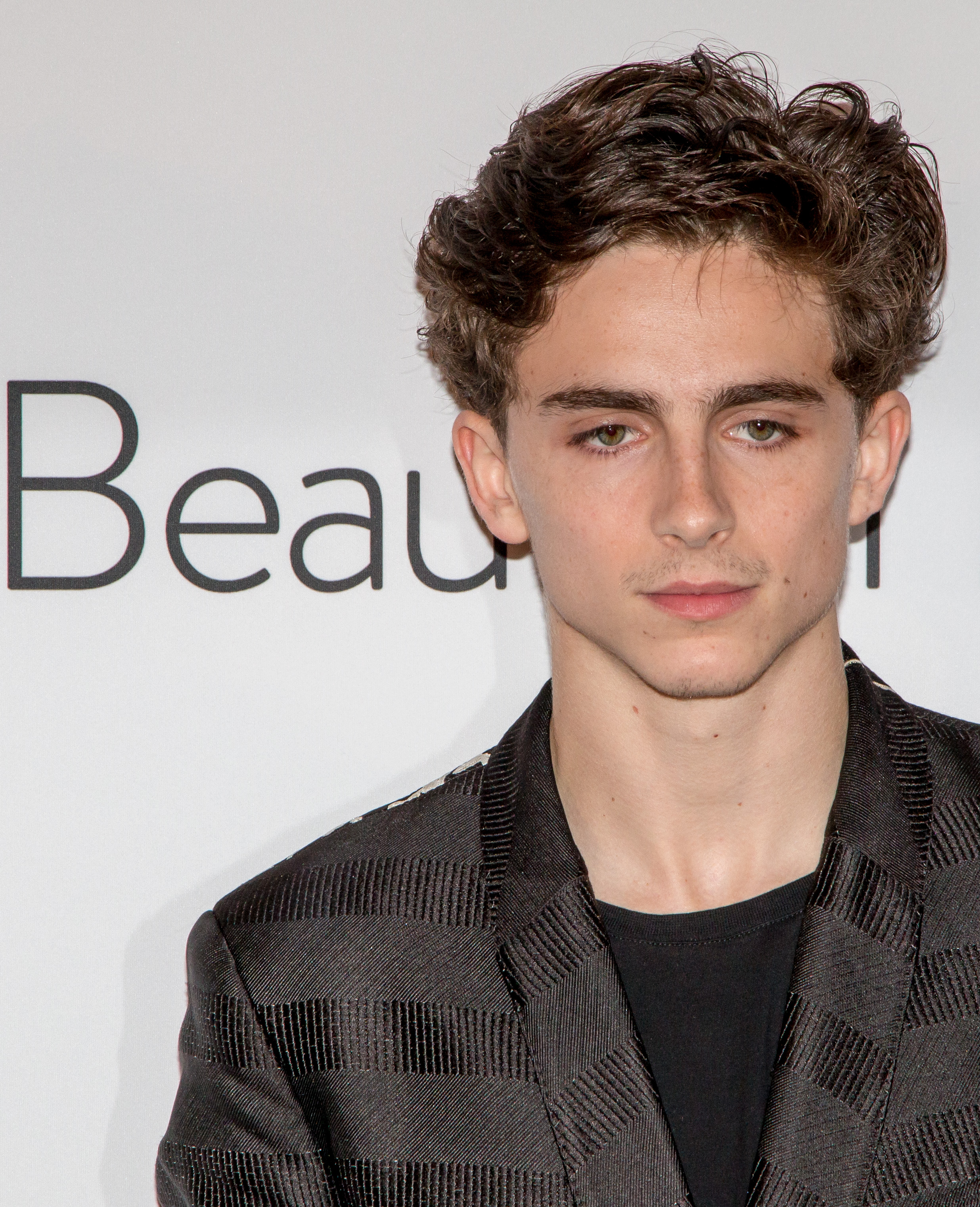 Timothée Chalamet at the 2018 Toronto International Film Festival.